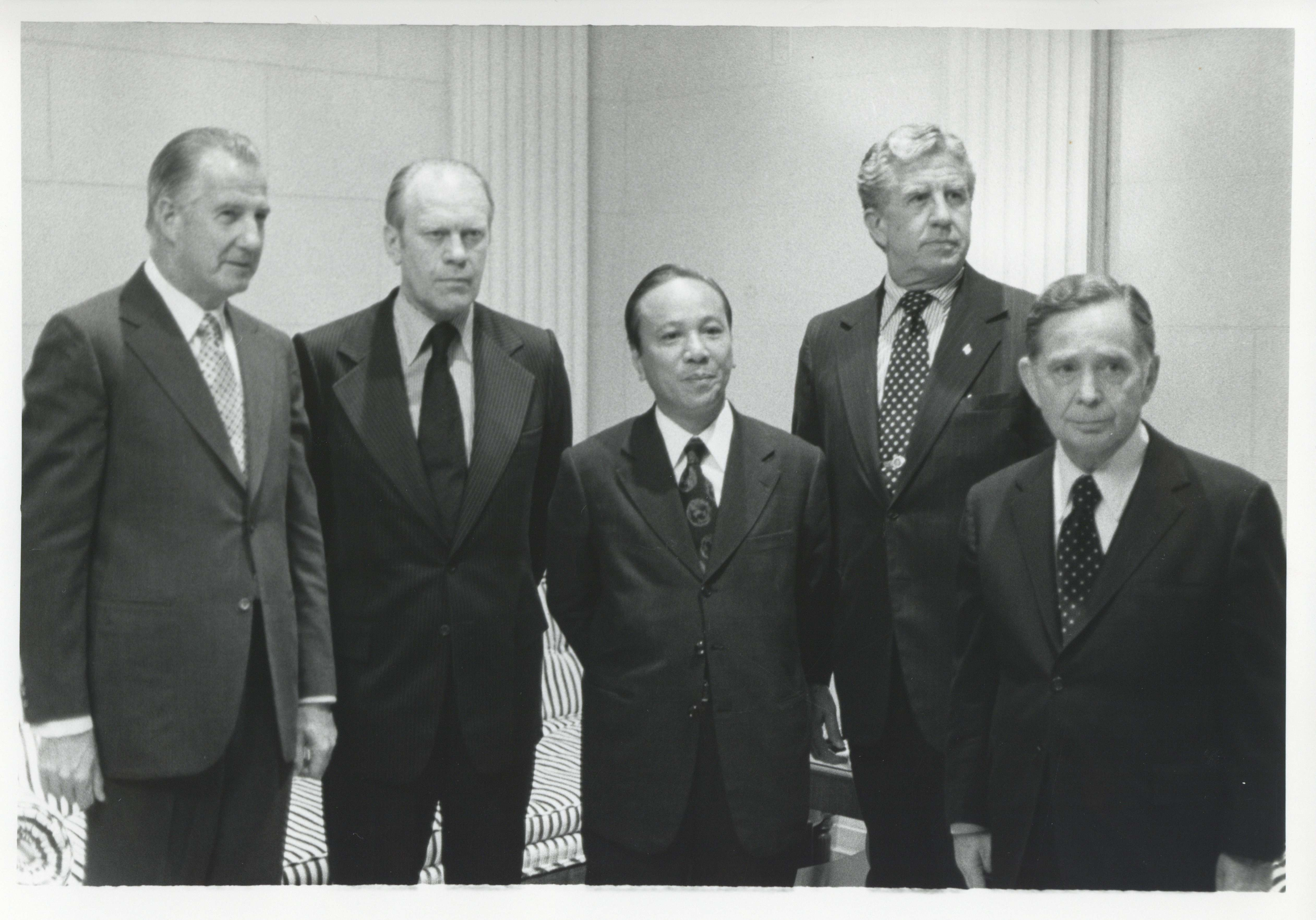 Spiro T. Agnew, Gerald R. Ford, President Thieu of Vietnam, and Carl Albert posing for a picture. April 5, 1973